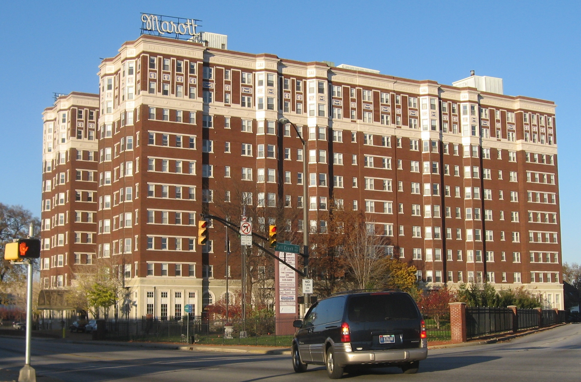 Front and southern side of the Marott Hotel, located at 2625 N. Meridian Street in Indianapolis, Indiana, United States. Built in 1926, it is listed on the National Register of Historic Places.